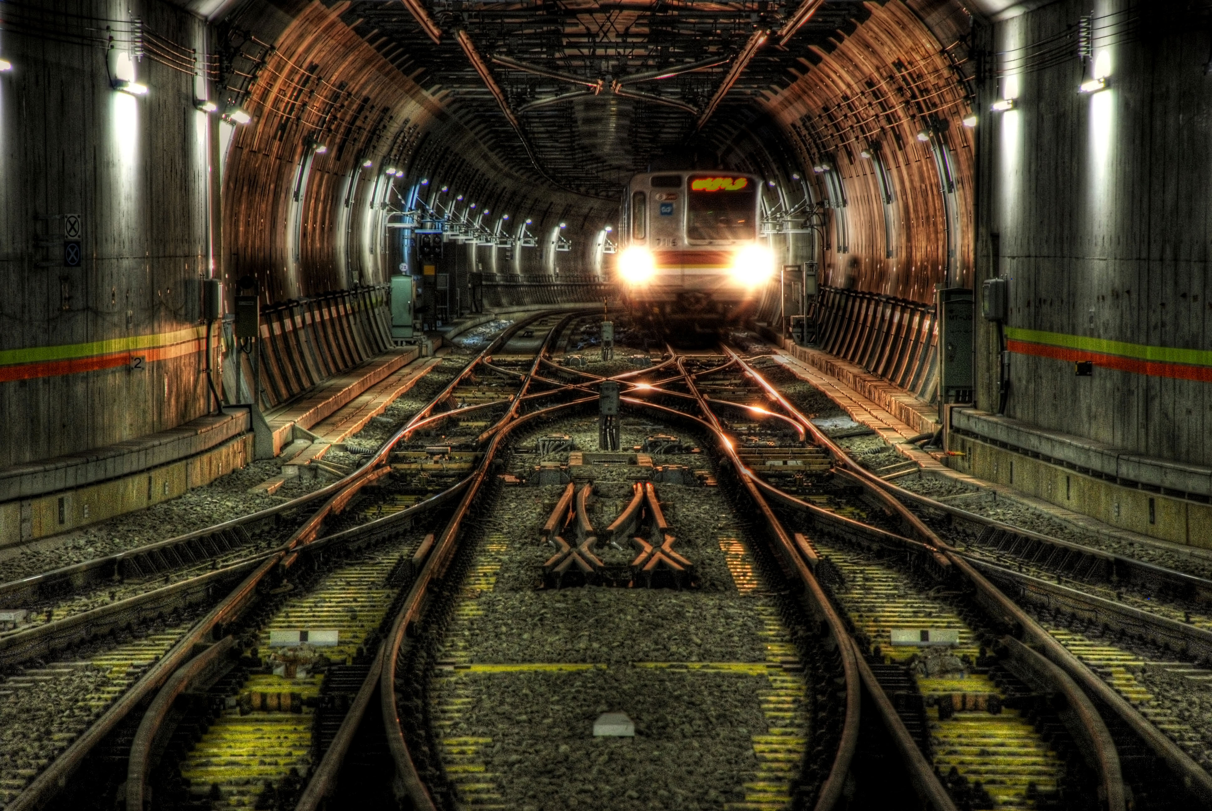 A Fukutoshin Line 7000 series train approaching Shibuya Station